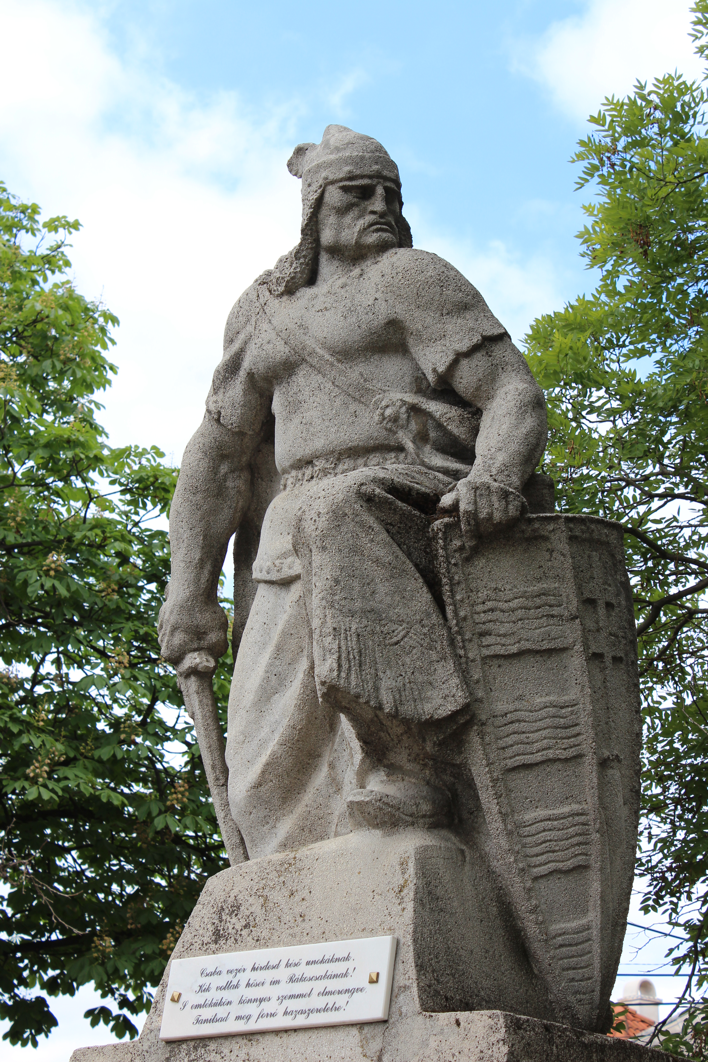 Statue of Prince Csaba, Budapest, District XVII.